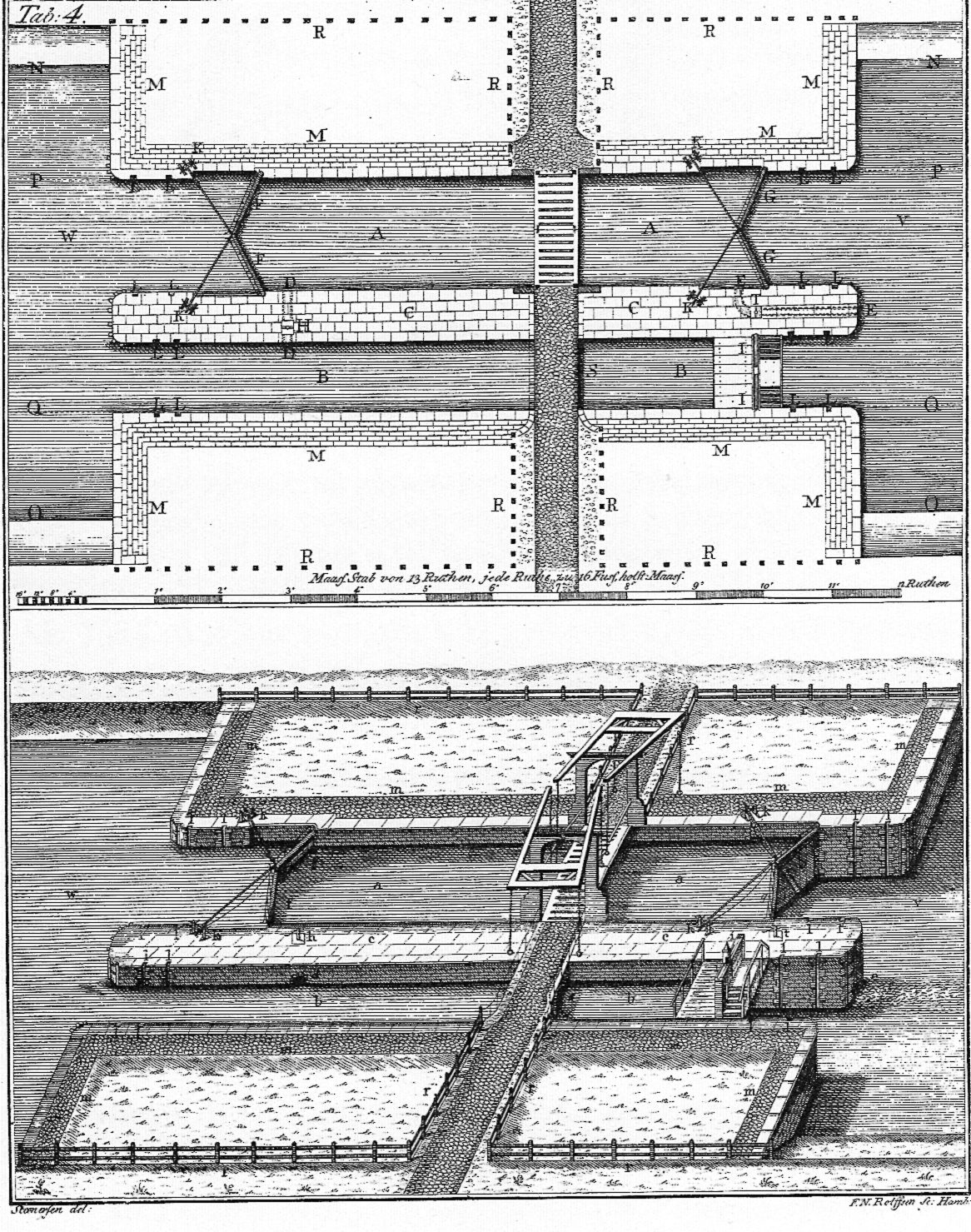 Plan of typical lock for the Eider canal in Schleswig-Holstein built in 1784 and opened 1785. First published by Georg Bruyn: Aufforderung an meine Mitbürger zur Theilnehmung an dem Canal-Handel. Altona 1784